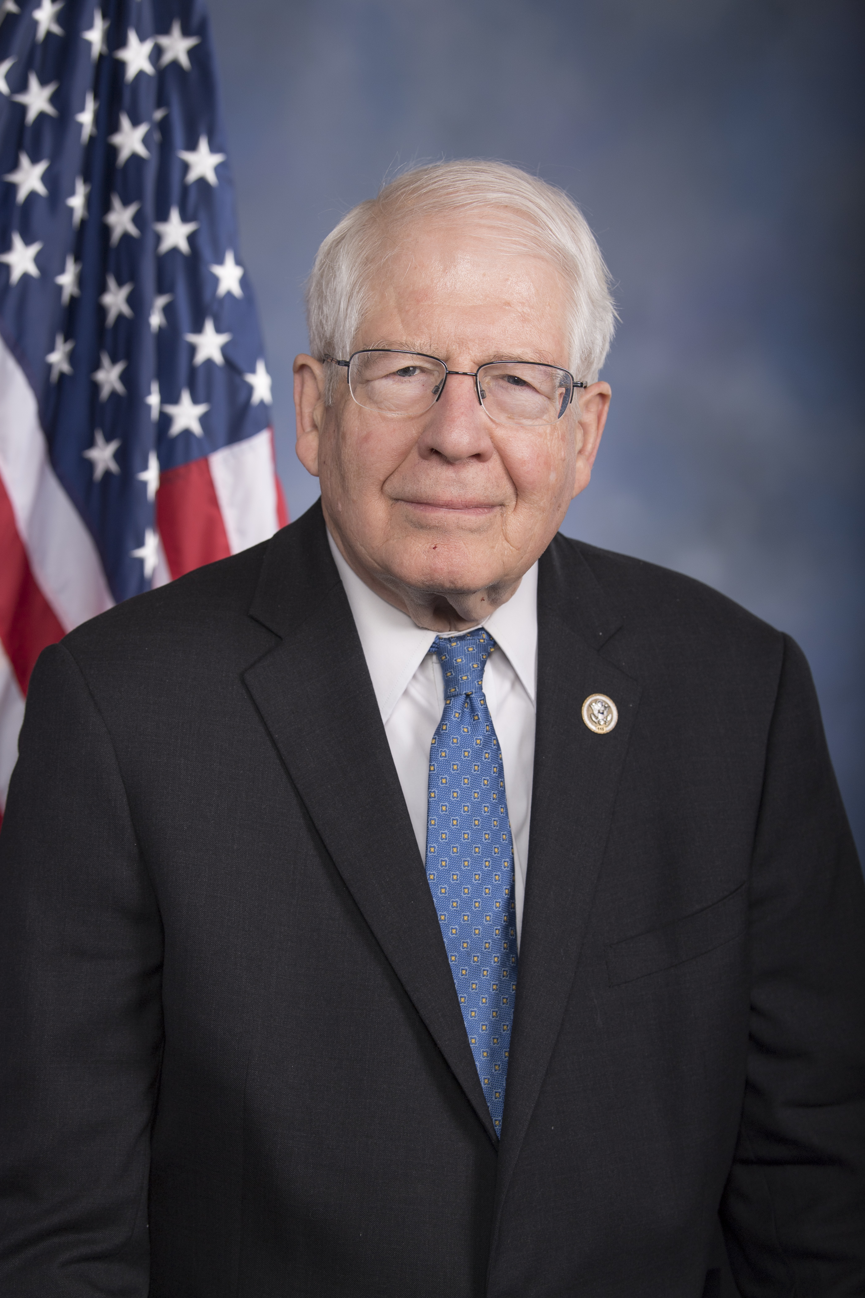 David Price official 115th Congress portrait